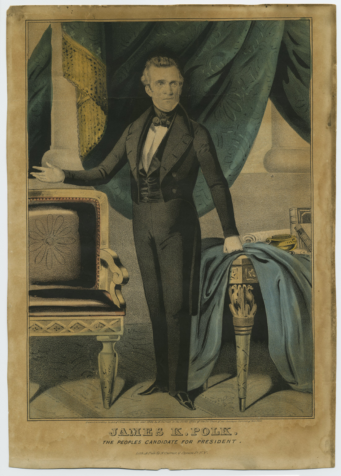 Collection: Cornell University Collection of Political Americana, Cornell University Library Repository: Susan H. Douglas Political Americana Collection, #2214 Rare & Manuscript Collections, Cornell University Library, Cornell University Title: James K. Polk. The Peoples Candidate for President. Political Party: Democratic Election Year: 1844 Date Made: 1844 Measurement: Print: 14 x 9.875 in.; 35.56 x 25.0825 cm Classification: Prints Persistent URI: There are no known U.S. copyright restrictions on this image. The digital file is owned by the Cornell University Library which is making it freely available with the request that, when possible, the Library be credited as its source.